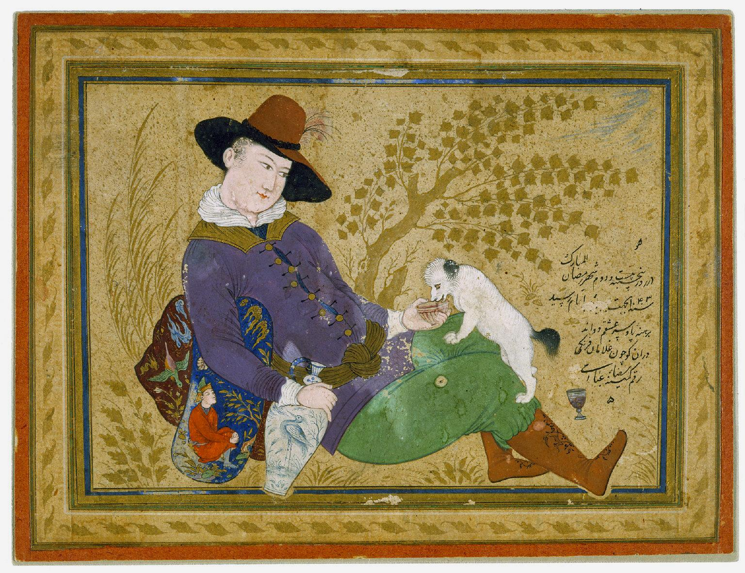 Young Portugese Man, 1634 by Riza-i 'Abbasi